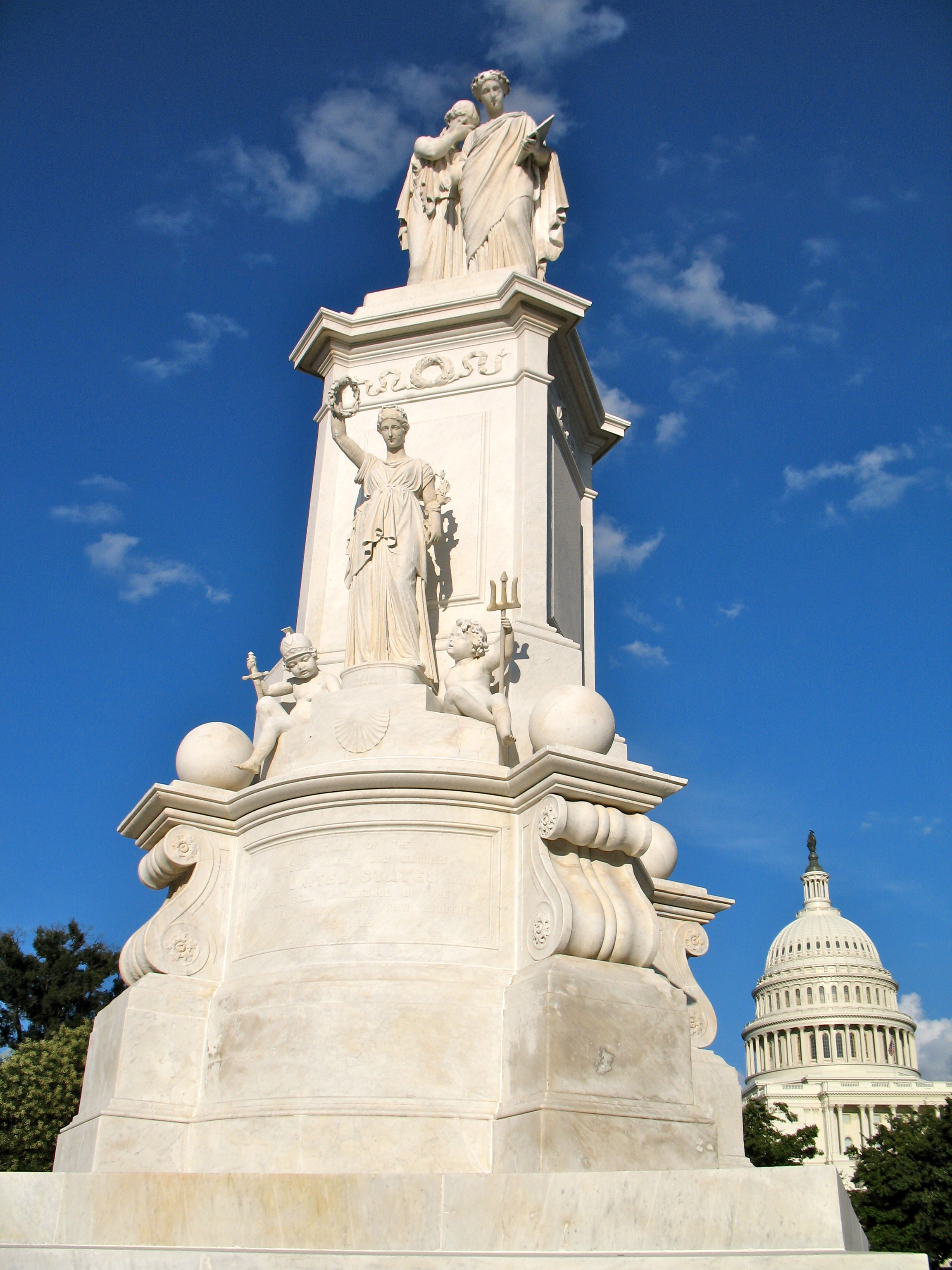 The Peace Monument, one of the Civil War Monuments, with the Capitol in the background.